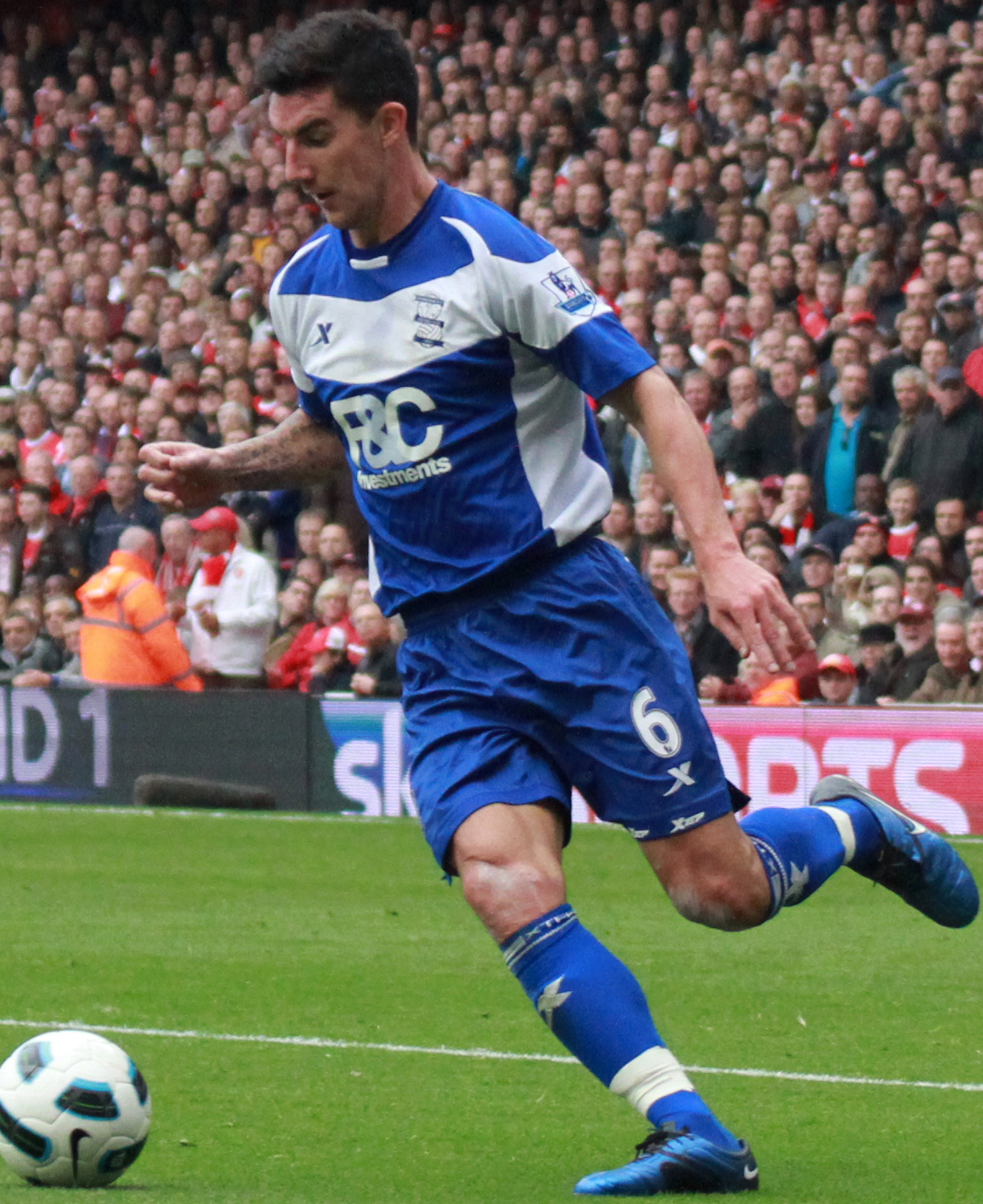 Arsenal v Birmingham City The Emirates 16 October 2010 (2-1) This file has been extracted from another file: Emmanuel Eboue and Liam Ridgewell.jpg